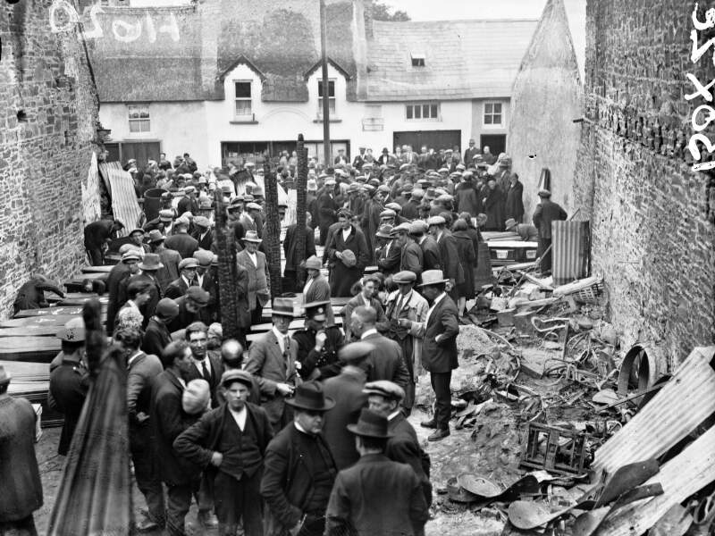 Photograph taken September 1926 Format: glass negative Part of: National Library of Ireland Independent Newspapers (Ireland) Collection. For more photographs in this collection see National Library of Ireland catalogue: Reference number: IND_H_0620